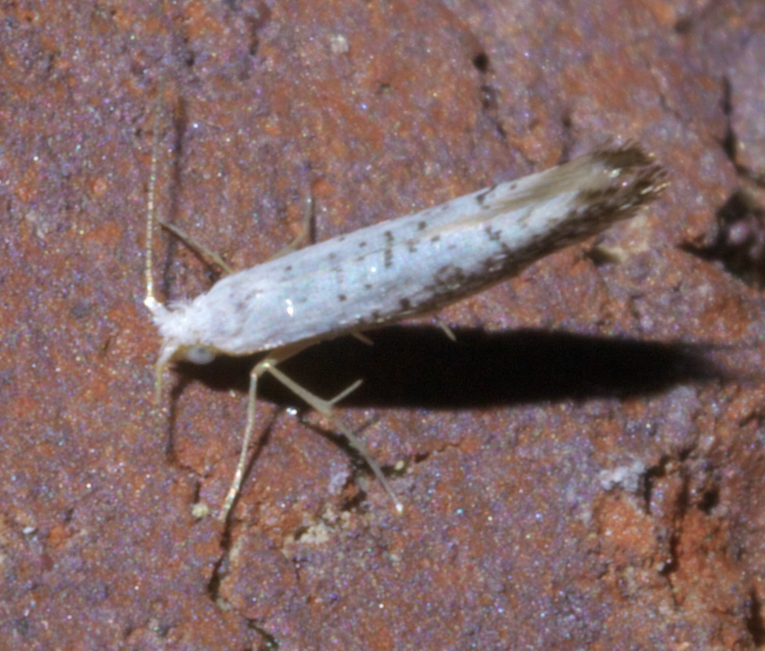 Argyresthia subreticulata, speckled argyresthia, ID Confidence: 90